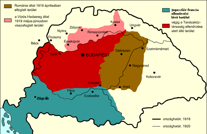 Military success of the Hungarian Soviet Republic Territory under Romanian and French control in April, 1919 Territory under the control of the Hungarian Soviet Republic Territory recovered by the Hungarian Soviet Republic Territory under French and Yugoslav control